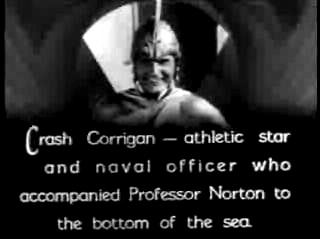 Screenshot from the public domain serial Undersea Kingdom (1936)